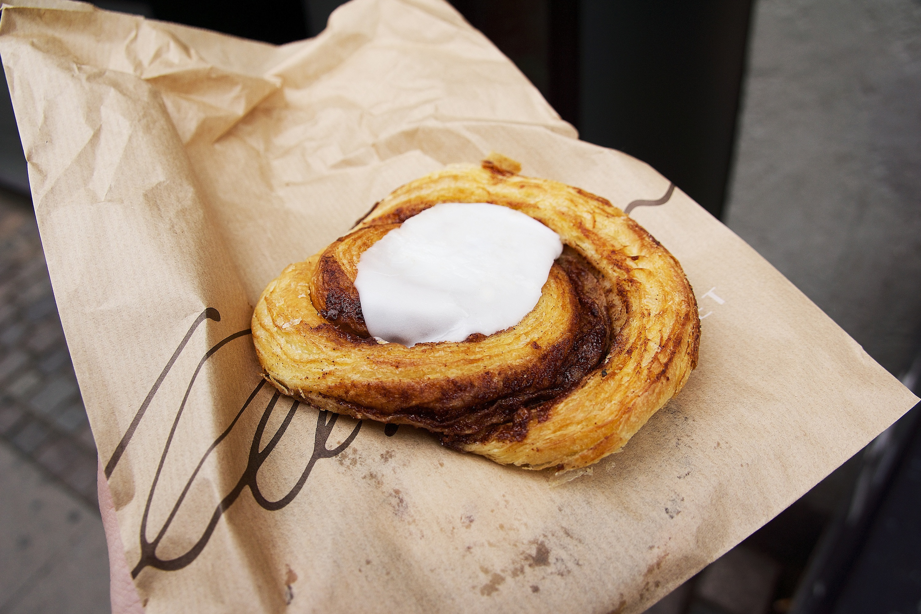 A Danish kanelsnegl from a baker in Copenhagen